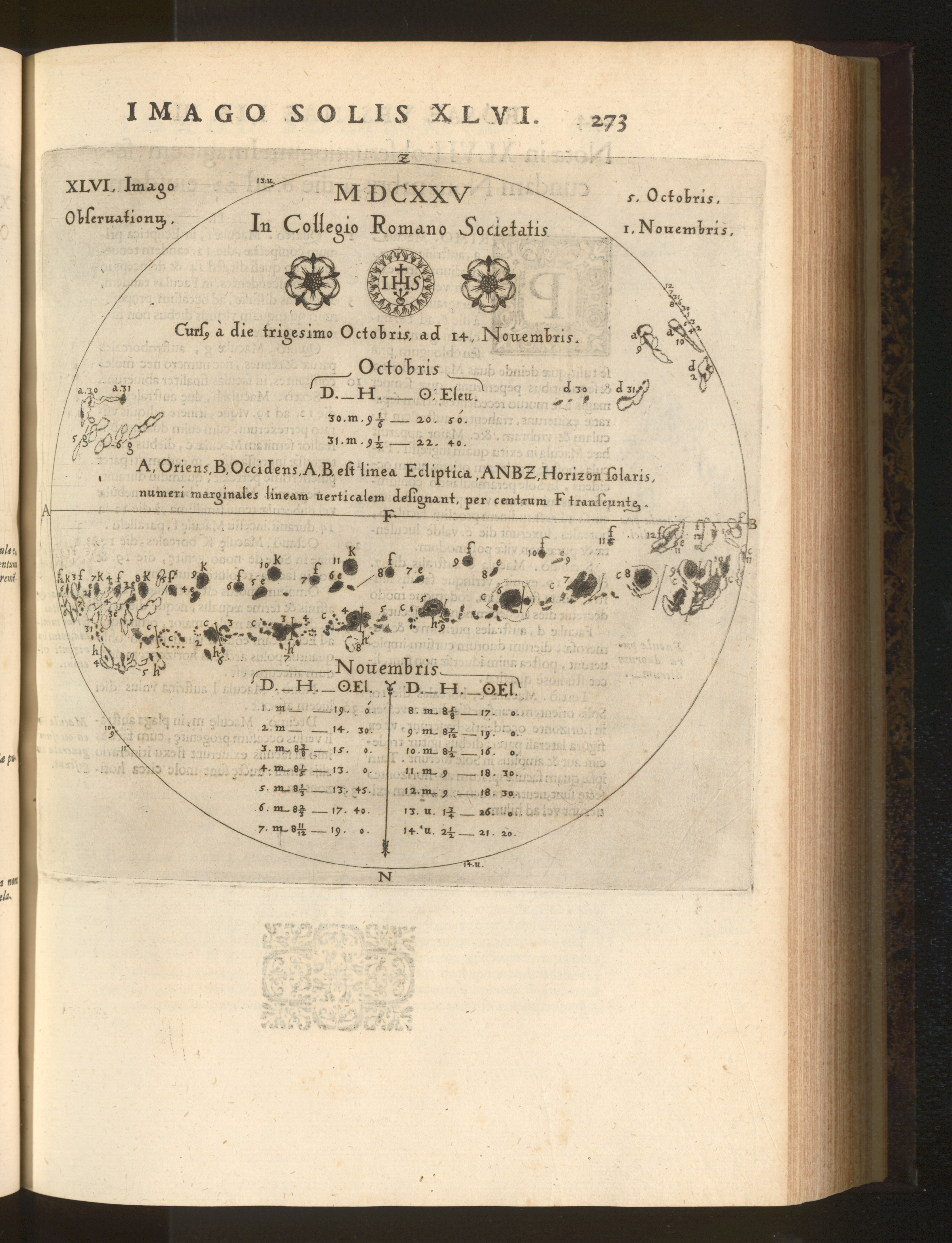 Observations of sun spots